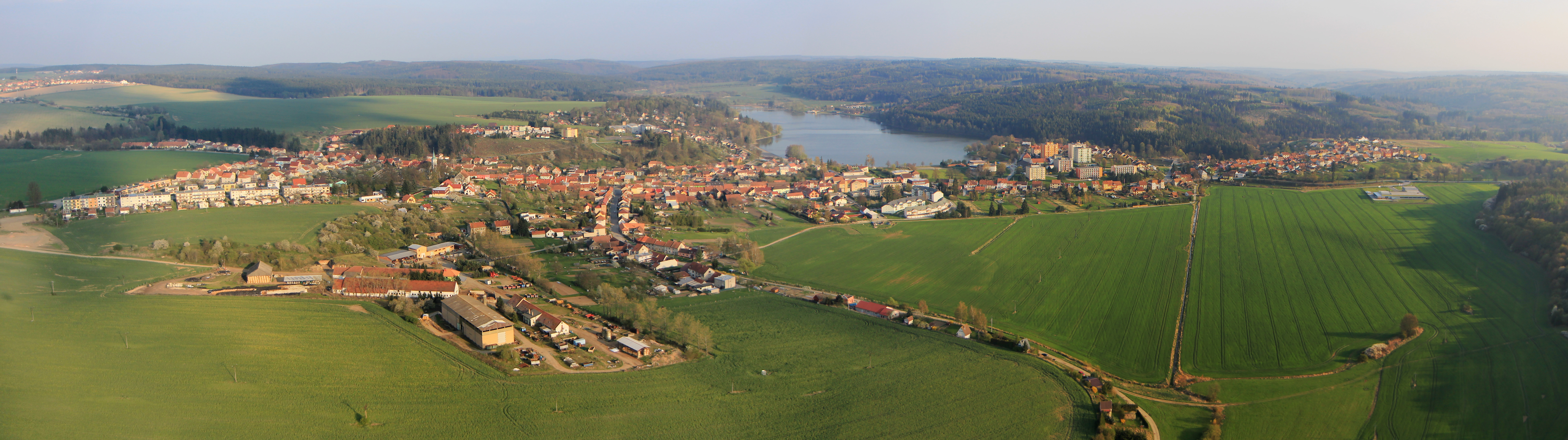 Jedovnice